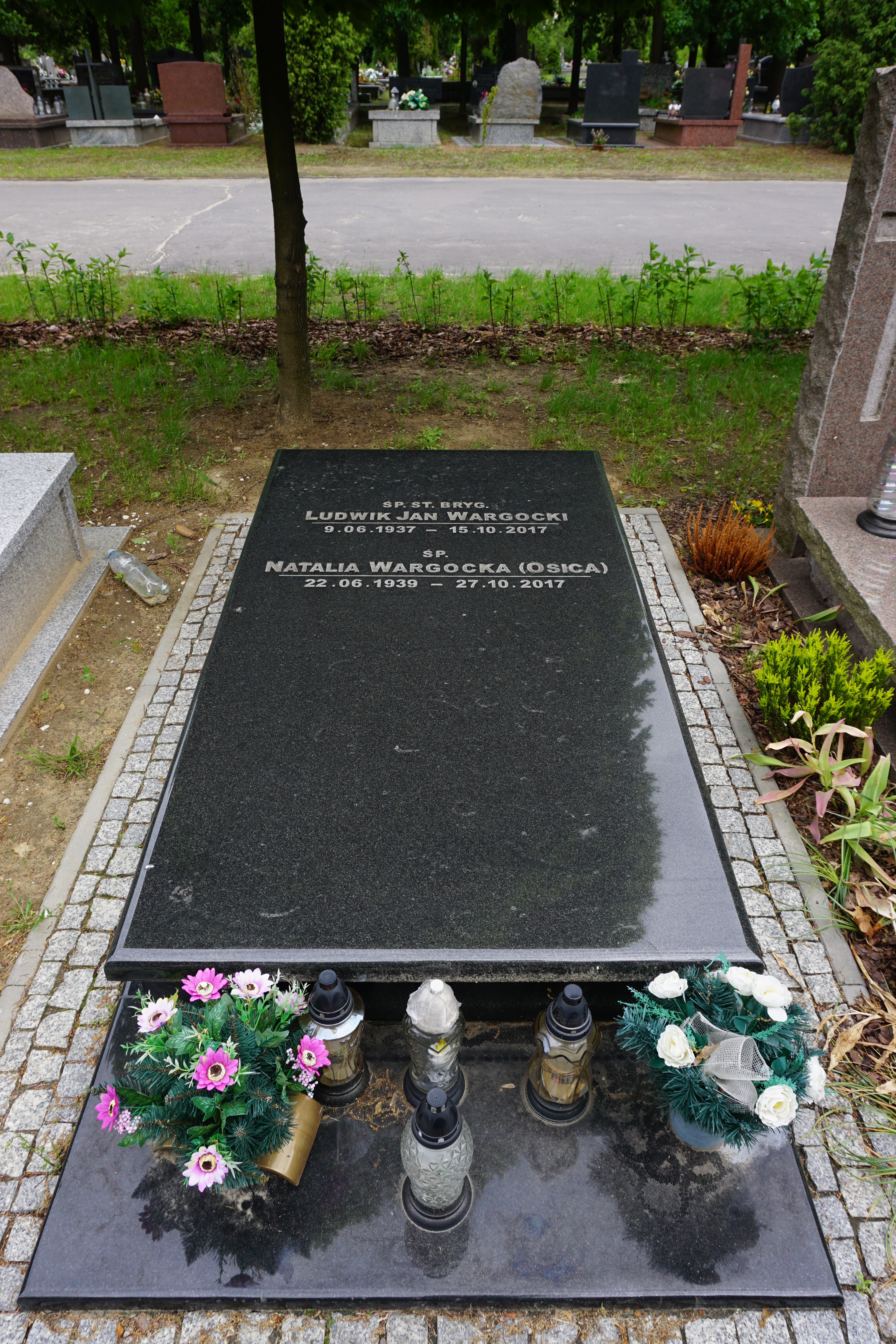 The grave of Ludwik Wargocki at the North Municipal Cemetery in Warsaw (section B-XVII-1, row 1, grave 17)